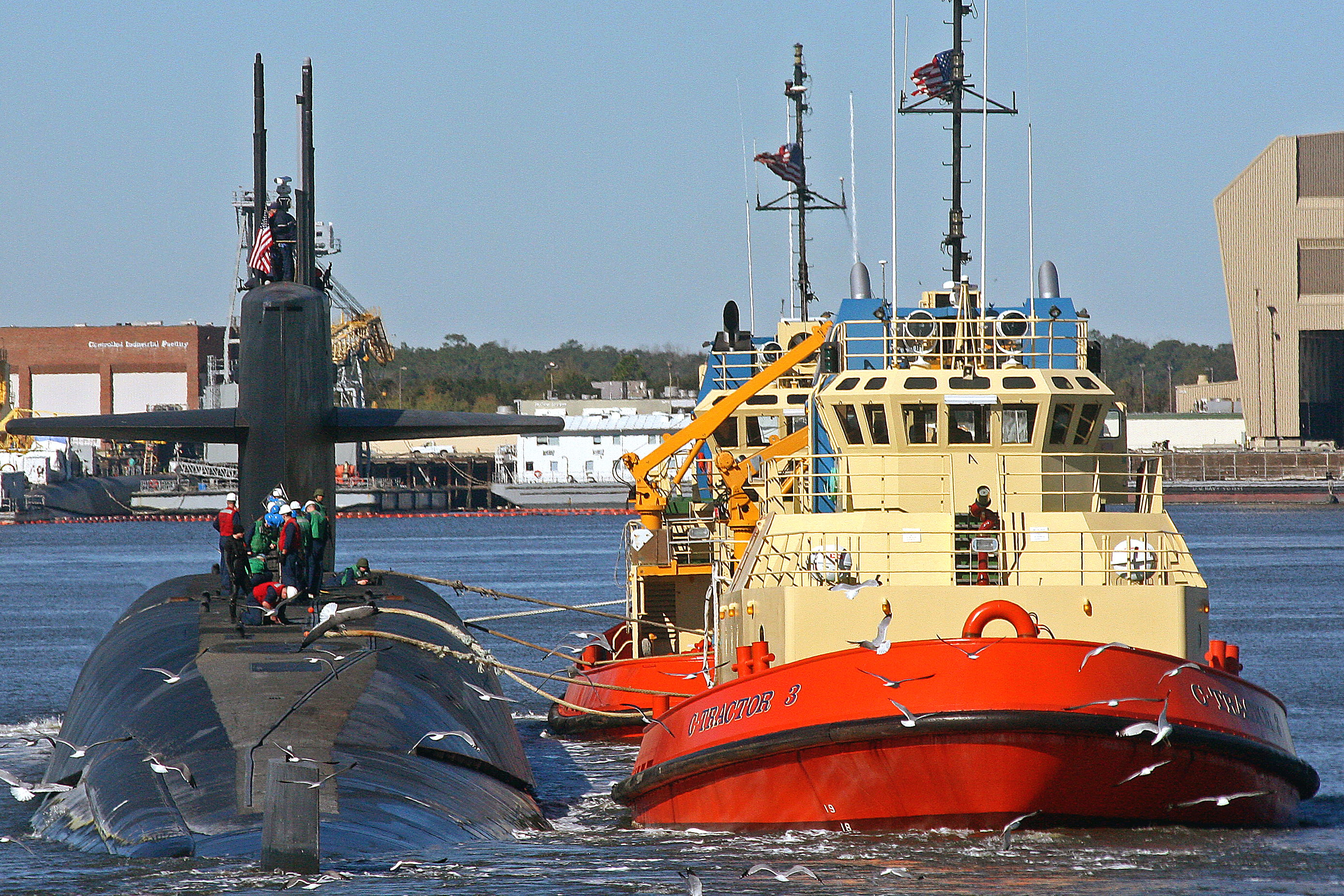 The U.S. Navy ballistic-missile submarine USS Rhode Island (SSBN-740)[clarification needed] is escorted by tug boats to her berth at Naval Submarine Base Kings Bay, Georgia (USA), on 9 January 2009. The first tugboat is C-Tractor 3.